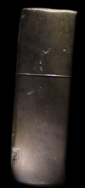 cussion stone